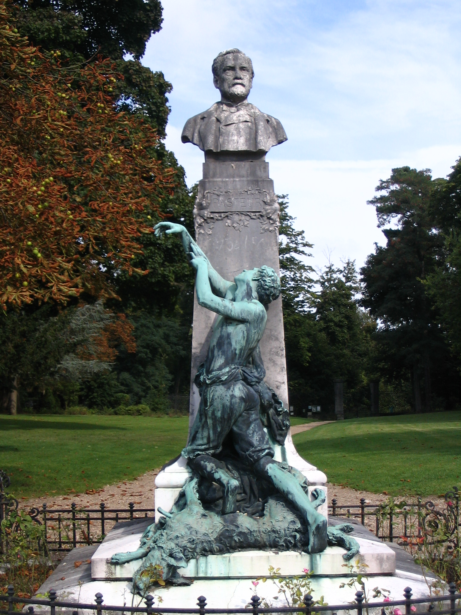 Statue of Pasteur in the little park neighbouring the town hall of Marnes-la-Coquette, Hauts-de-Seine, France.